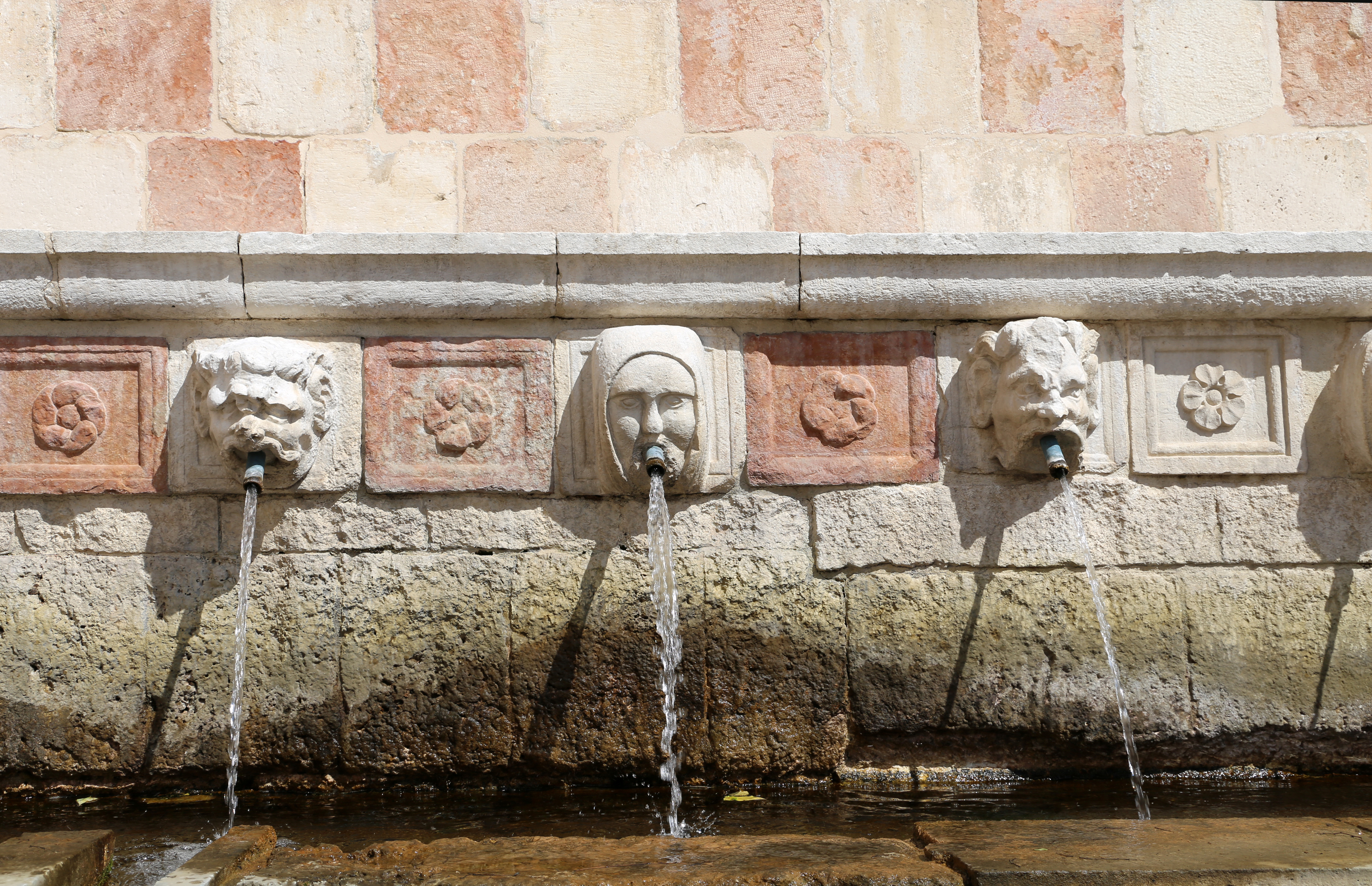 Fontana delle 99 cannelle (L'Aquila)